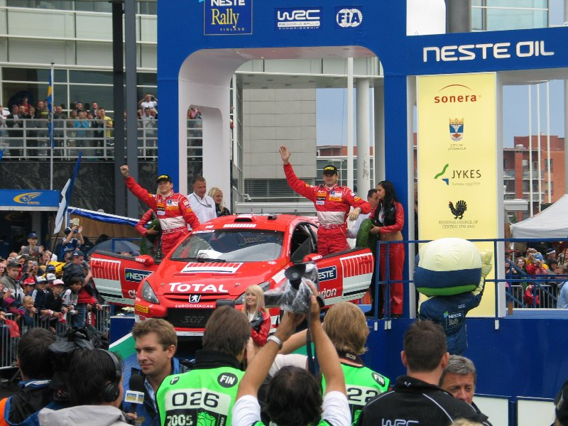 Marcus Grönholm celebrating his win at the 2005 Rally Finland.